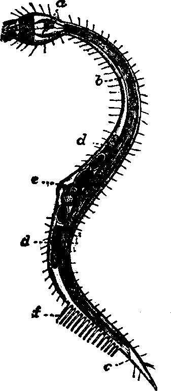 Drawing of a mature female of Chaetosoma chalaredii